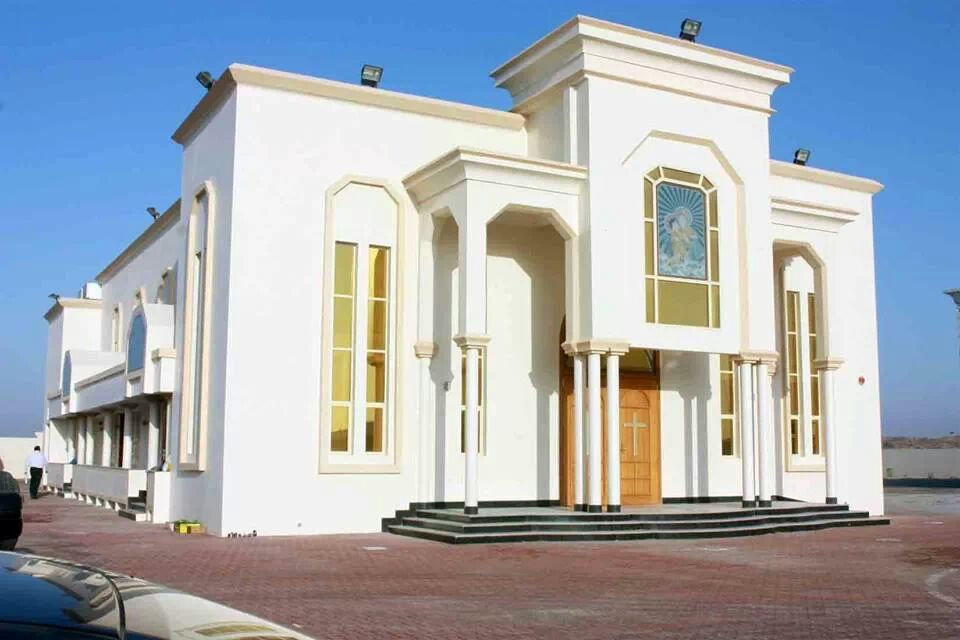 St Mary's Indian Orthodox Church